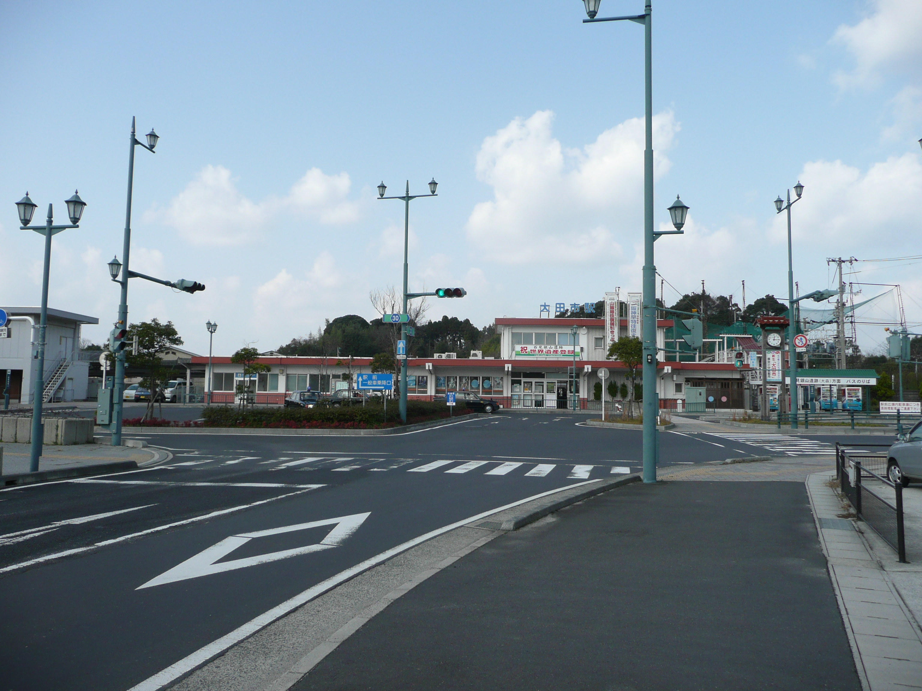 大田市駅前風景。駅前通り（島根県道30号および174号）。